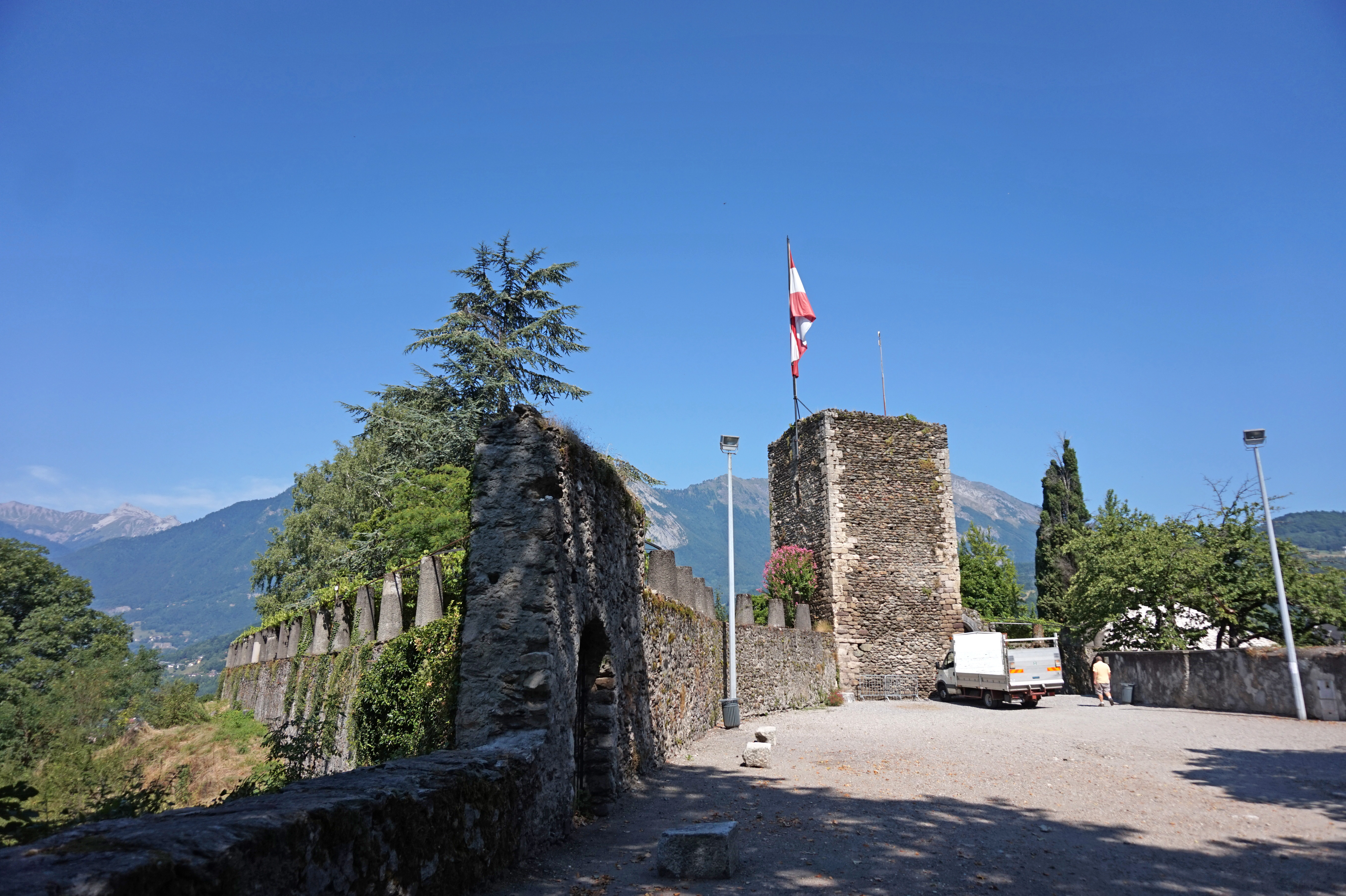 Conflans, Albertville.This photograph was taken with a Sony ILCE-5000